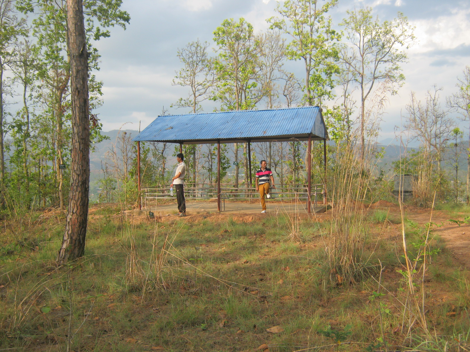 Picnic Spot of a community forest in Panchkhal valley, Nepal.